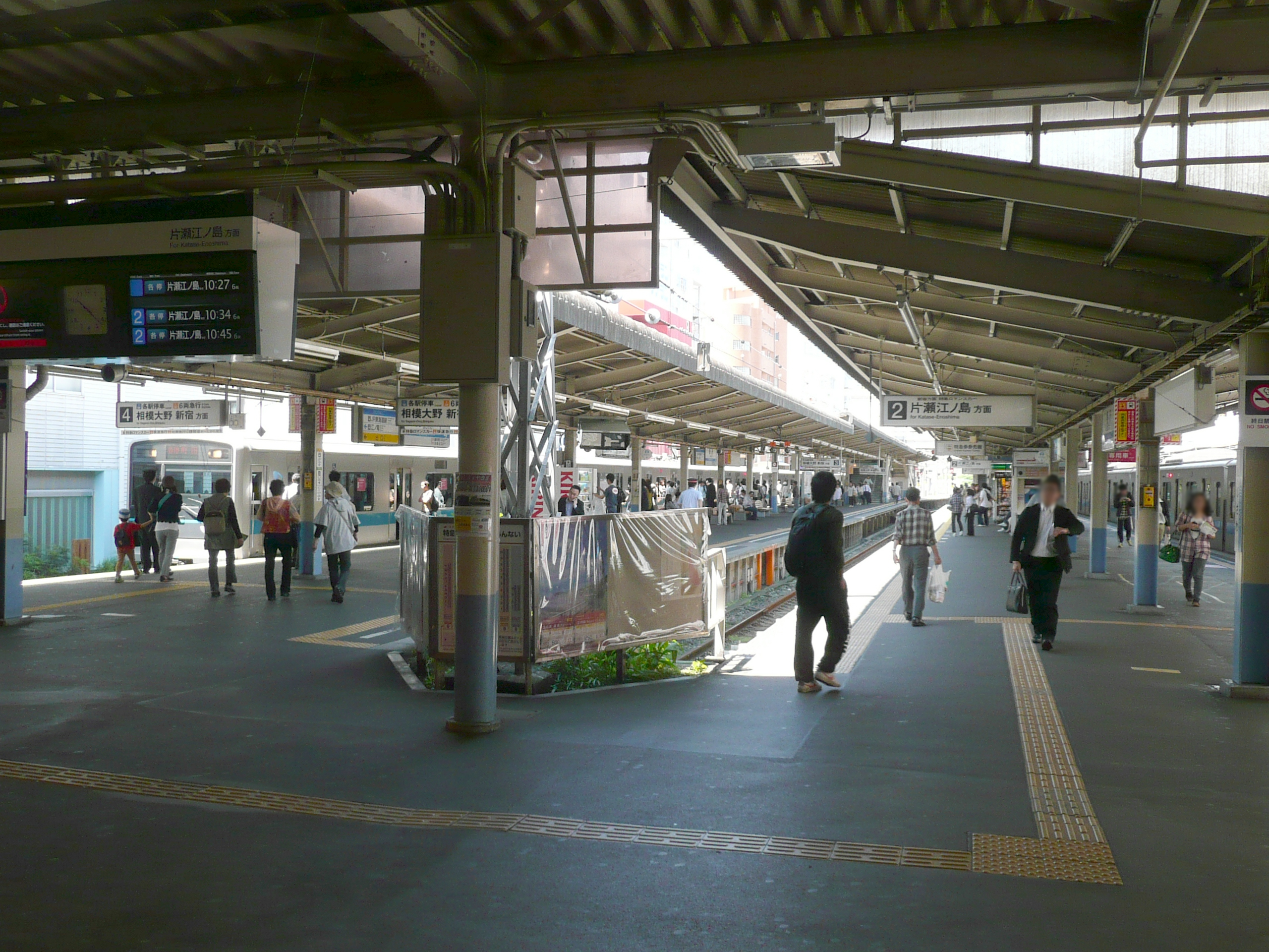 Platforms of Odakyu Fujisawa Station